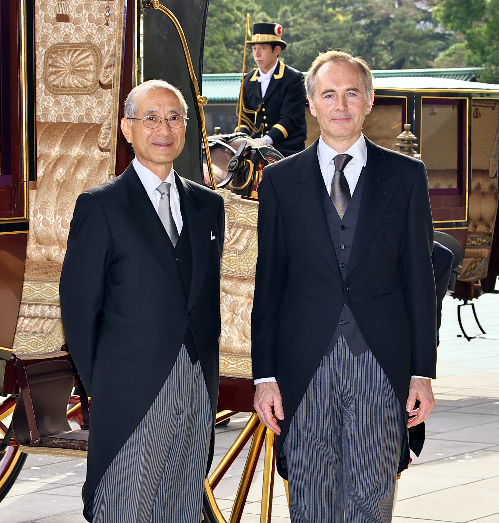 Tim Hitchens, Ambassador to Japan, met Nobutake Odano, Grand Master of the Ceremonies, the Imperial Household Agency, to attend the Ceremony of the Presentation of Credentials in Chiyoda Ward, Tōkyō Metropolis on December 21, 2012.